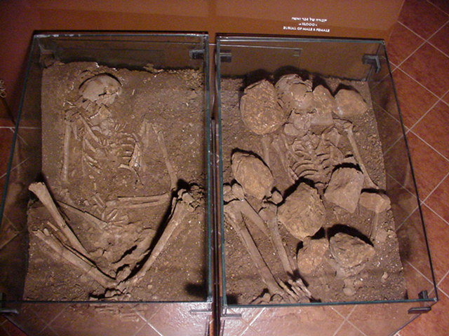 two skeletons from the presentation in the Museum of Prehistoric man (Museum of Prehistoric of the Hulla Valley)